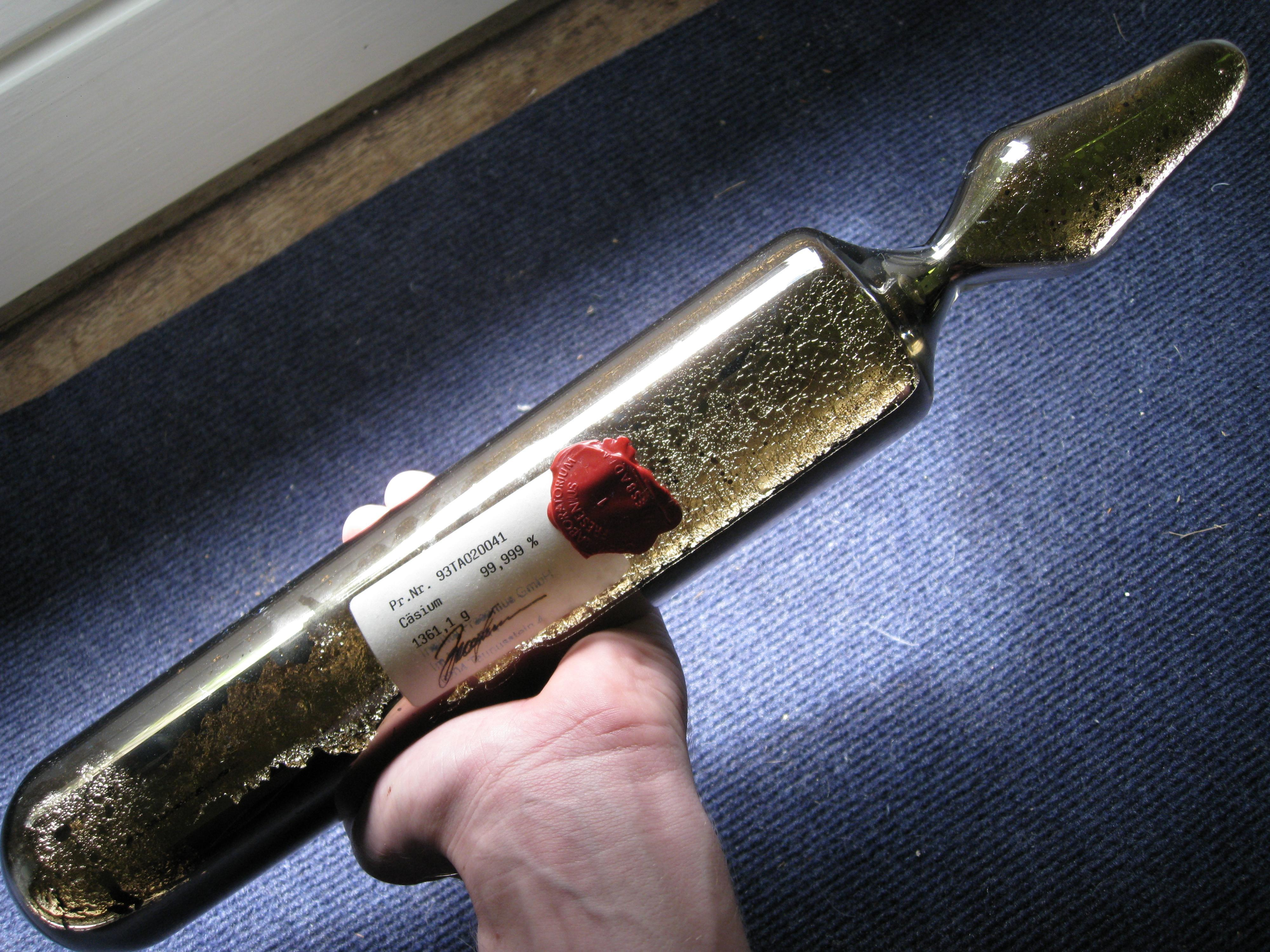 Massive 1361,1 gram cesium metal ampule made by the former Soviet union. Sample from the Dennis s.k collection.